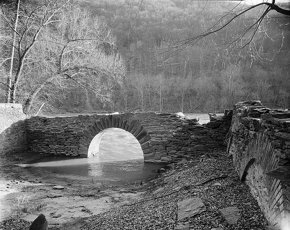 Flour mill ruins, Virginius Island, Harpers Ferry, West Virginia, USA